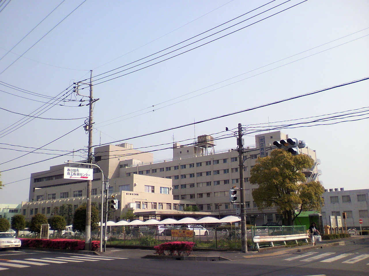 This is a hospital in Japan.